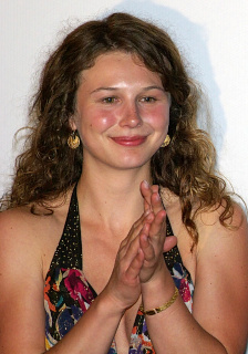 German actress Anna Maria Sturm